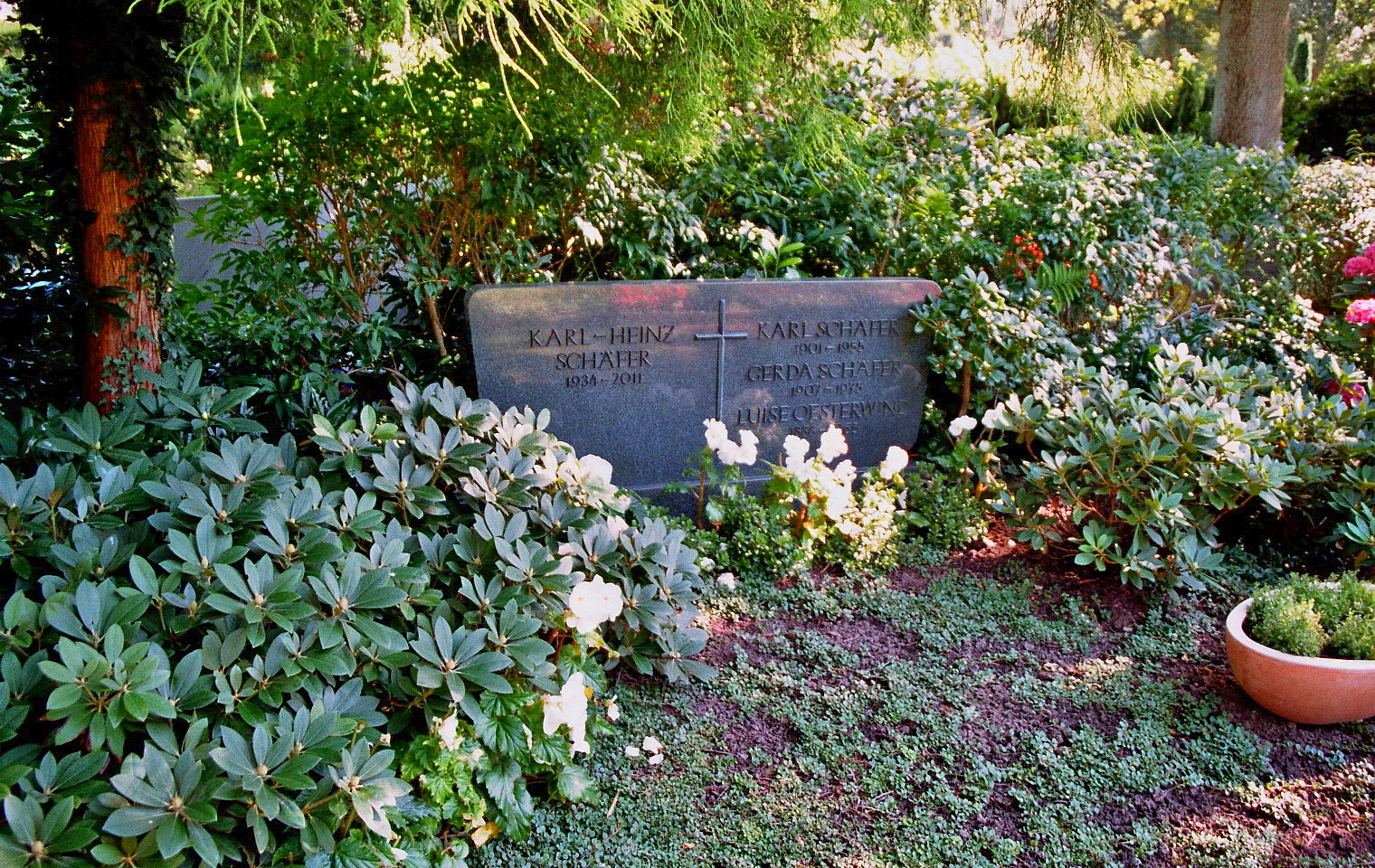 Schäfer family grave in the Central Cemetery (Zentralfriedhof) in Ibbenbüren, Kreis Steinfurt, North Rhine-Westphalia, Germany.